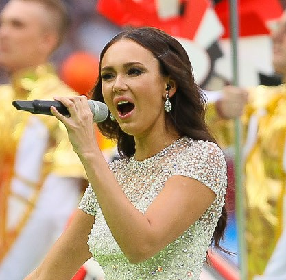 Aida Garifullina at the 2018 FIFA World Cup opening ceremony in Moscow, Russia.